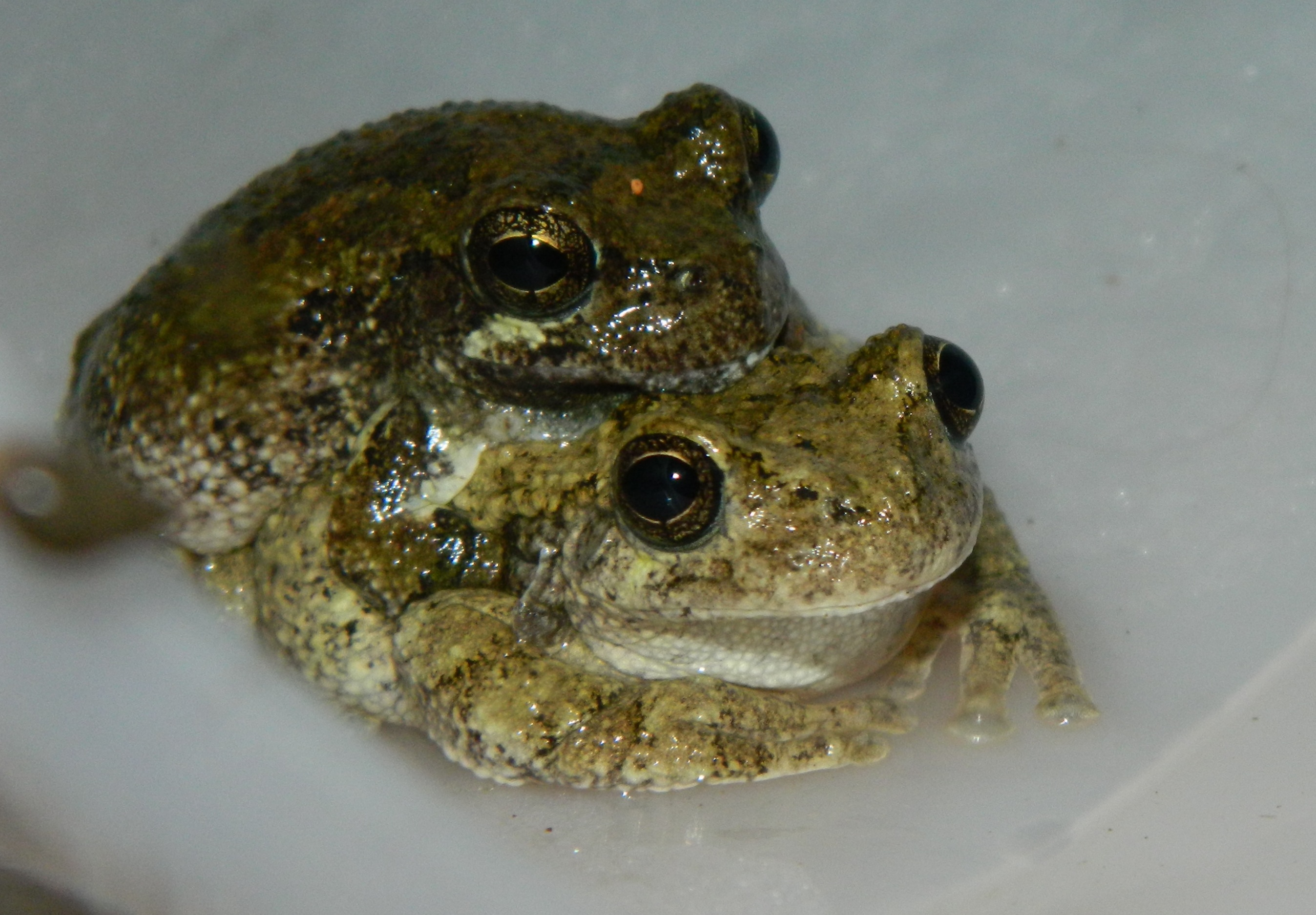 Hyla chrysoscelis in amplexus